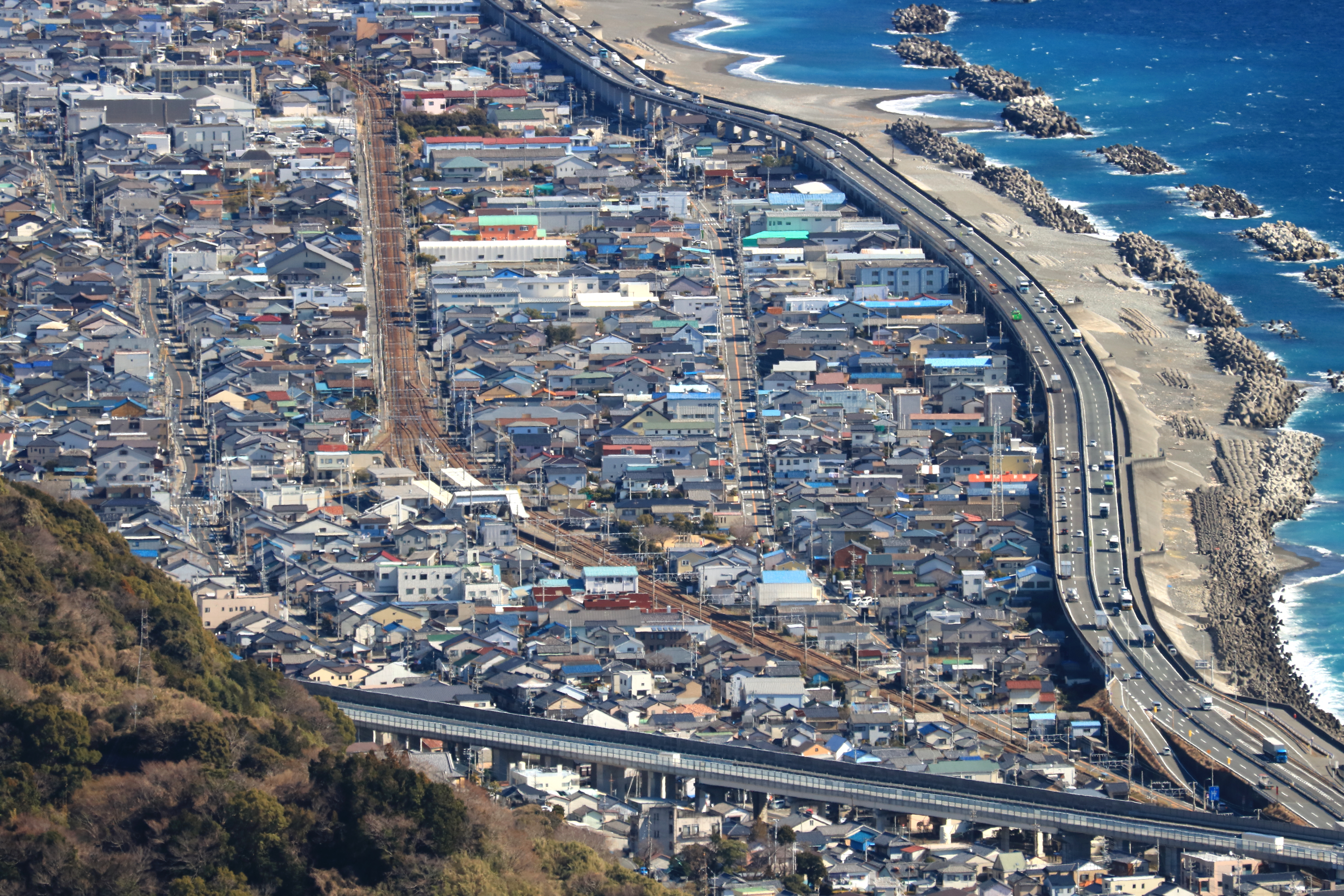 Kambara Station and Route 1 in Kambara, Shimizu-ku, Shizuoka City, Shizuoka Prefecture, Japan. Canon EOS Kiss X8i